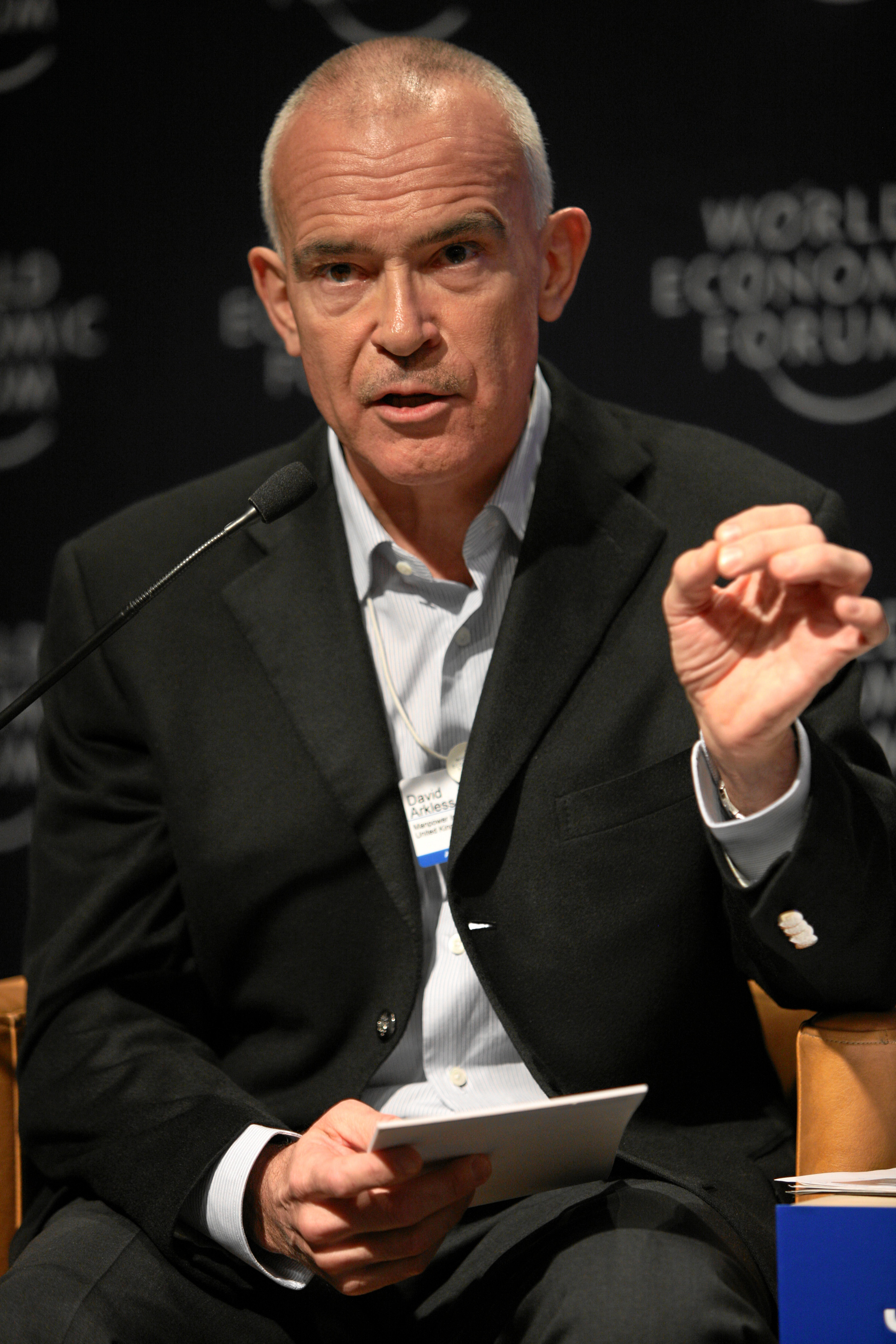 DAVOS-KLOSTERS/SWITZERLAND, 29JAN09 - David Arkless speaks during the session 'Addressing the Employment Challenge' at the Annual Meeting 2009 of the World Economic Forum in Davos, Switzerland, January 29, 2009. Copyright by World Economic Forum by Remy Steinegger